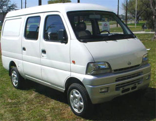 The Tiger Star is assembled in Oklahoma, but is mostly for export. Street legal in Okla., the little 98"wheelbase van, is a LSV (low speed vehicle) with a top speed of 30 mph.